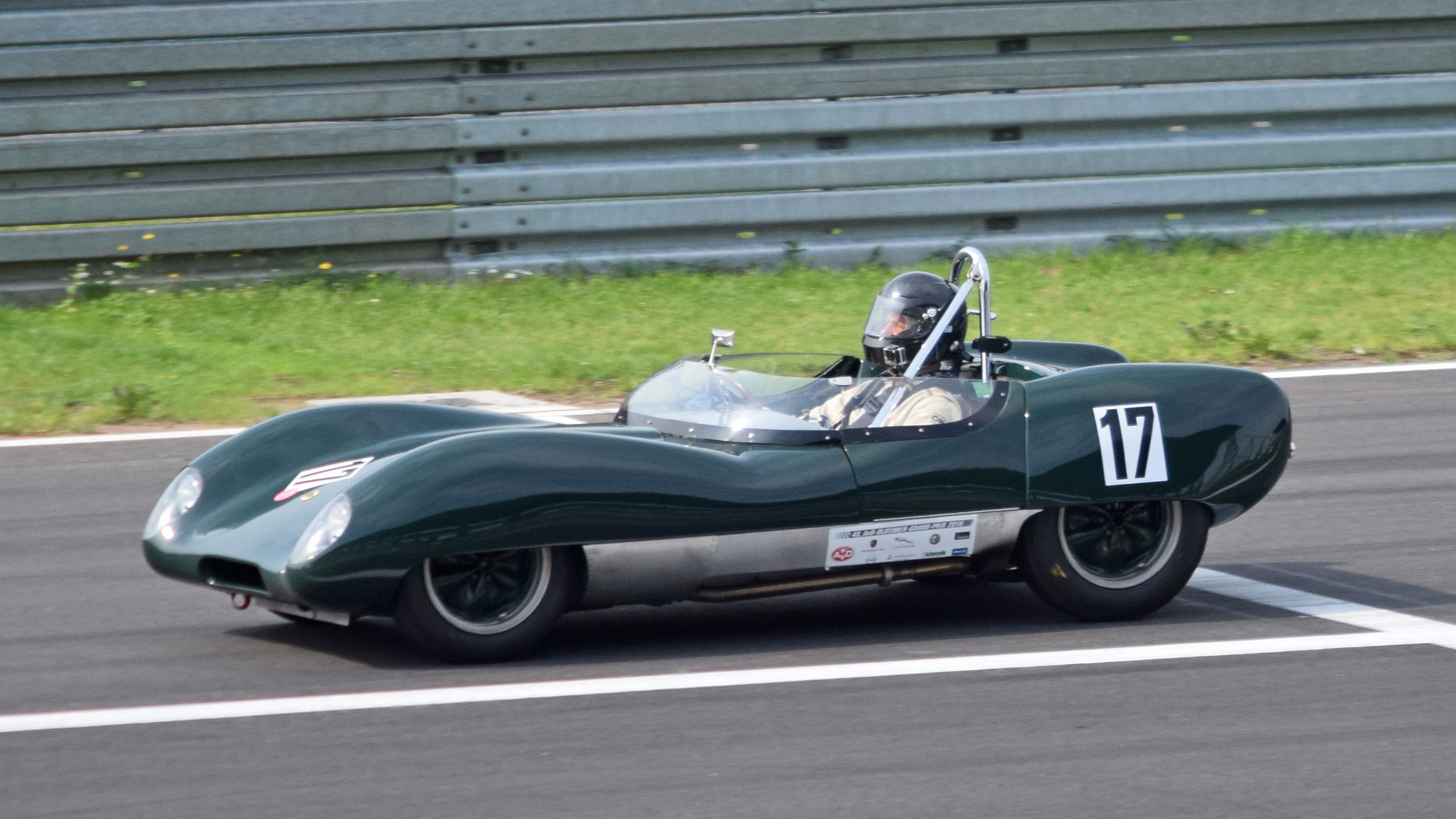 Lotus 17 at the Nürburgring